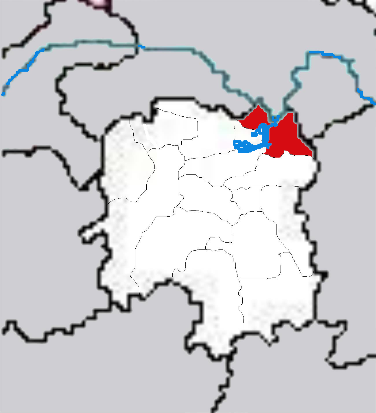 Maps of Hunana Province of China